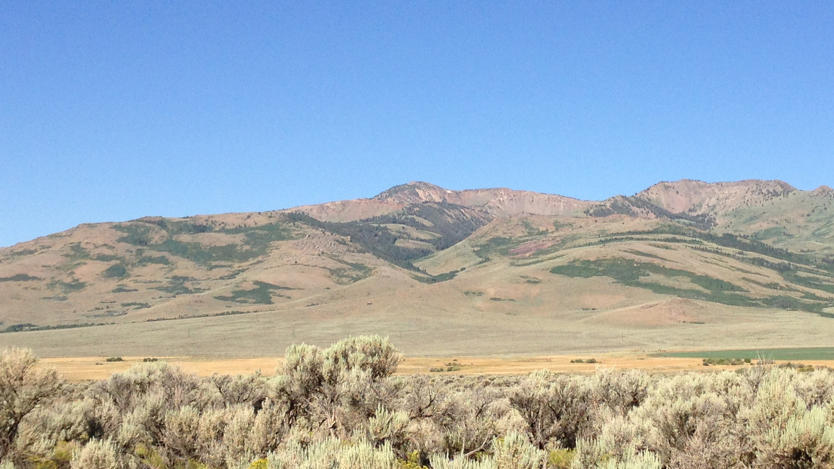 View of McAfee Peak, Nevada from Jack Creek Summit Road (Elko County Route 732) in Elko County, Nevada